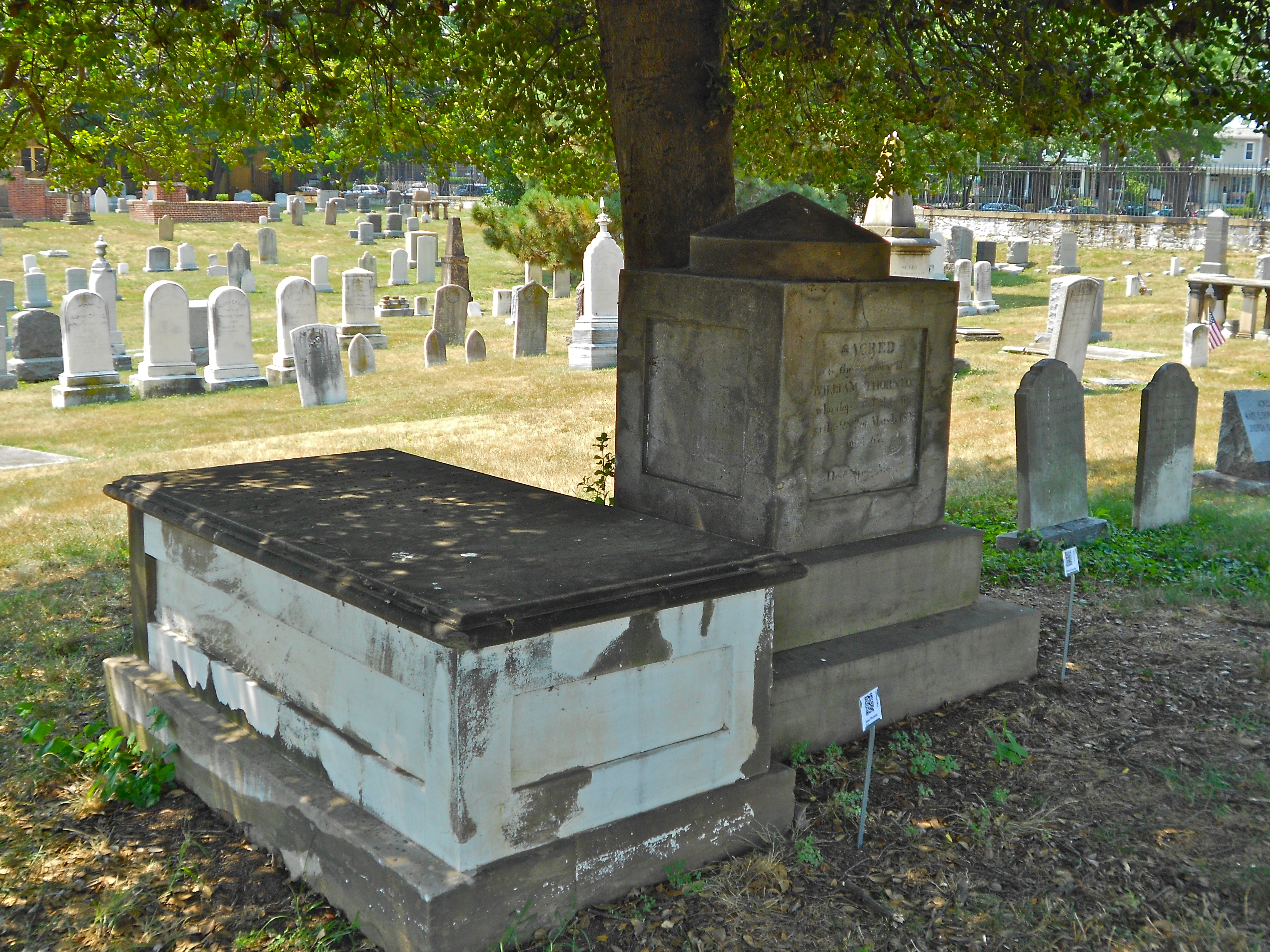 Graves of Ann and William Thornton a the Congressional Cemetery in Washington, DC (a National Historic Landmark). He was the first Architect of the Capitol and is the only non-Congressman to be honored with a "Latrobe Cenotaph" (right) - though it is his grave, not a true cenotaph. She was a well-known socialite and diarist who recorded many key events during her lifetime, e.g. Dolley Madison's actions during the Burning of Washington. Both have articles in Wikipedia. She outlived her husband William by decades, and here they are now, joined after death by QRpedia!